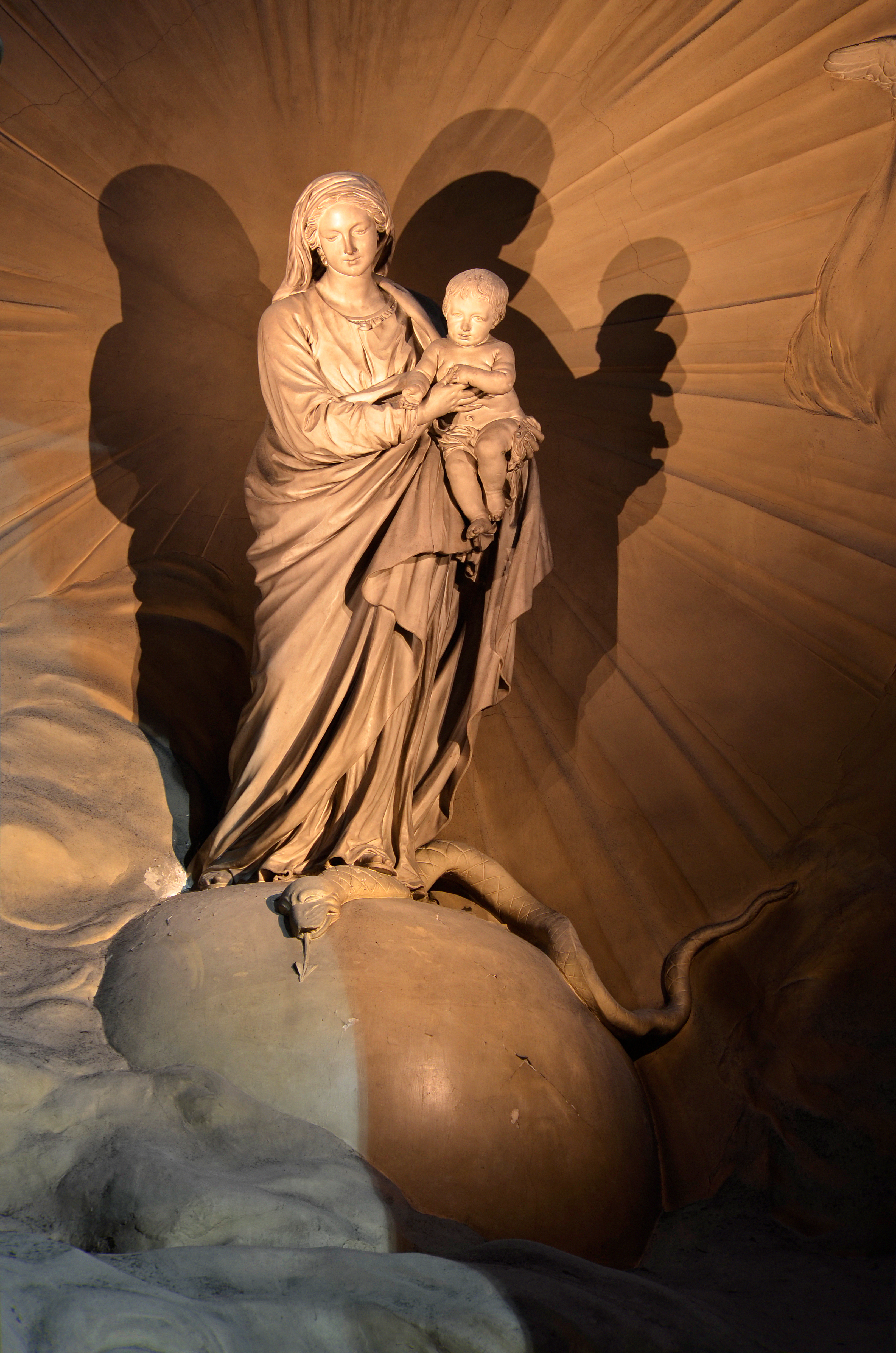 Chapel of the Virgin in Saint-Sulpice church - Paris, France